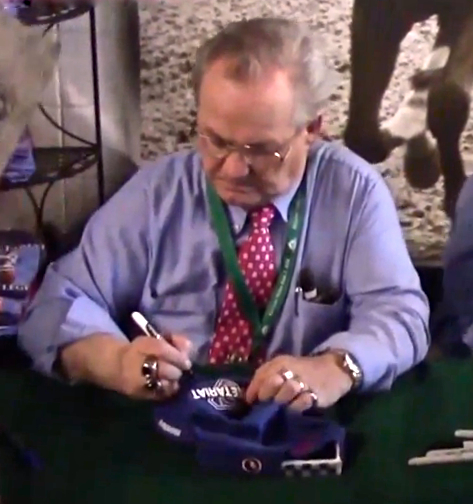 Ron Turcotte, Triple Crown winning jockey of Secretariat (1973), at the 2014 Belmont Stakes